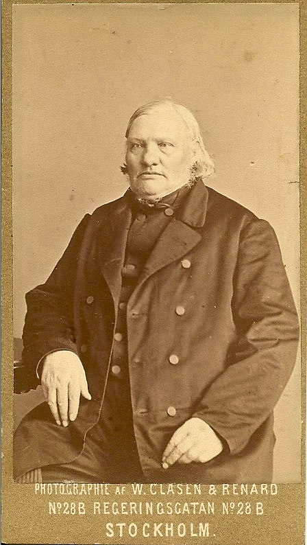 Swedish politician from late nineteenth century